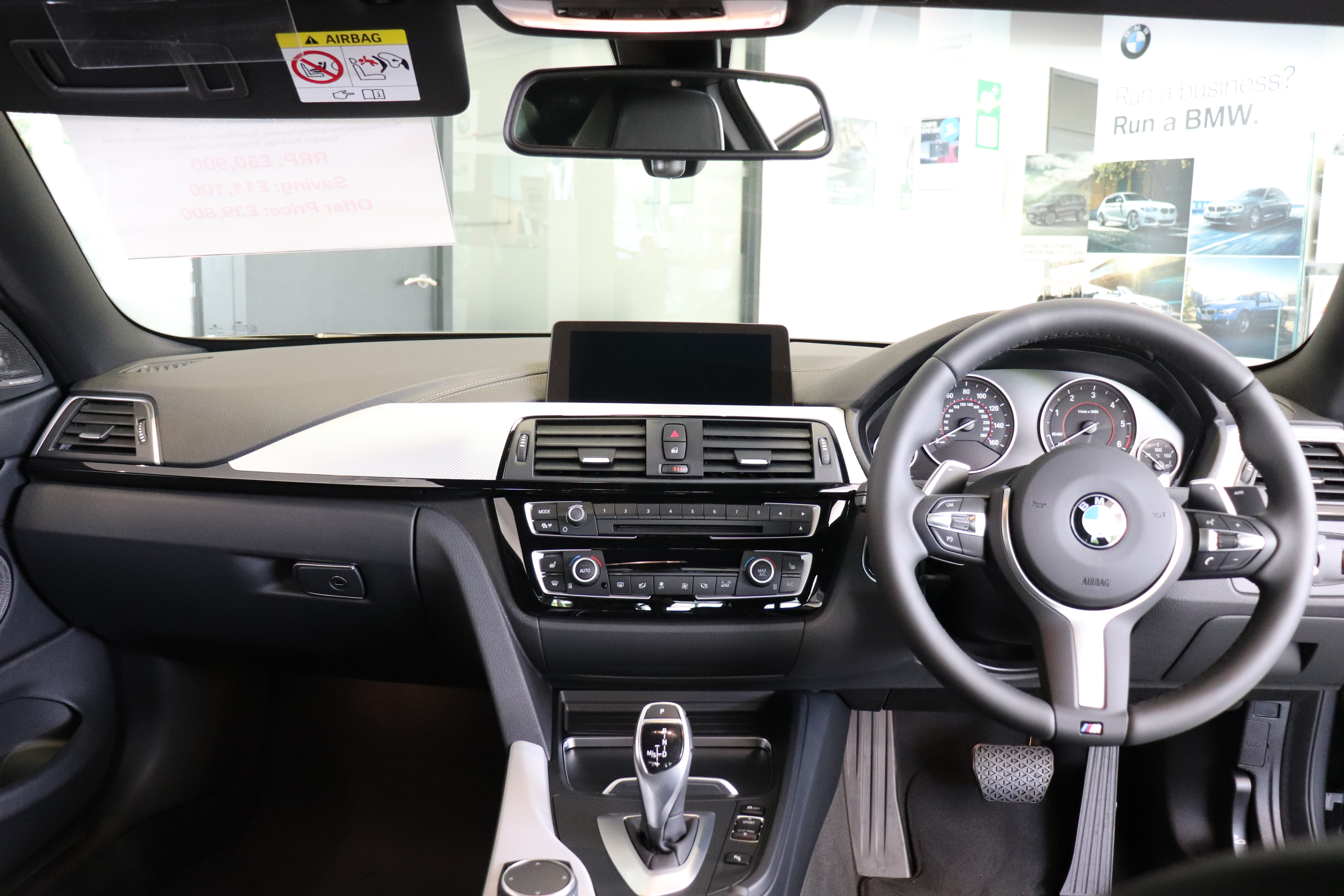 2018 BMW 435d xDrive M Sport Coupe Interior Taken in Rybrook Warwick, Leamington Spa